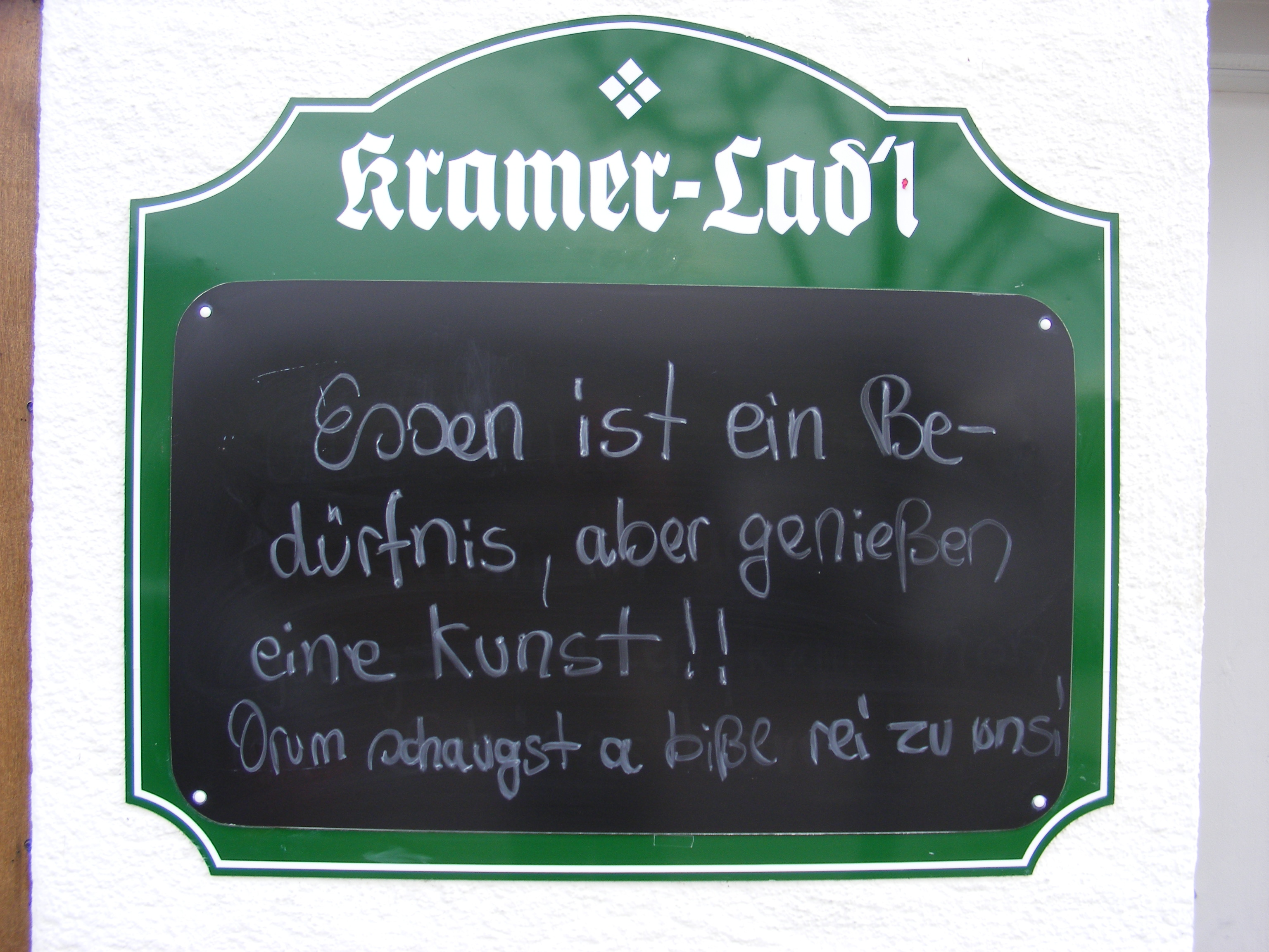 A restaurant advertisement in Rottach-Egern, Miesbach district, Bavaria: Kramer Lad'l: "Eating is a need, but enjoyment is an art!! So come and take a little look inside our place!" (approximately translated from Bavarian dialect of German)